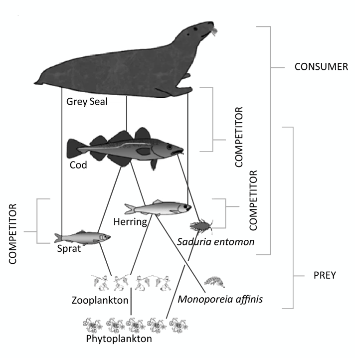 Grey seal food web in the Baltic Sea The classifications denote which role each species/food web component has in the tested statistical models. Gray seal is the most abundant seal species in the Baltic Sea and feed mainly on sprat, herring and cod. Cod is the predominant piscivorous fish in many parts of the region, feeding mainly on sprat and herring, which together constitute around 85% of the pelagic fish species in terms of biomass. Cod also feeds on benthic invertebrates, in particular the isopod Saduria entomon. Sprat of all sizes are zooplanktivorous, whereas larger herring also feeds on benthic species. In particular, the lipid-rich amphipod Monoporeia affinis can constitute a large proportion of the herring diet. S. entomon feeds mainly on M. affinis; in the Bothnian Sea, they form a tightly coupled predator–prey system. Polychaetes contribute to the diet of herring and S. entomon to a smaller extent (not shown in this figure)